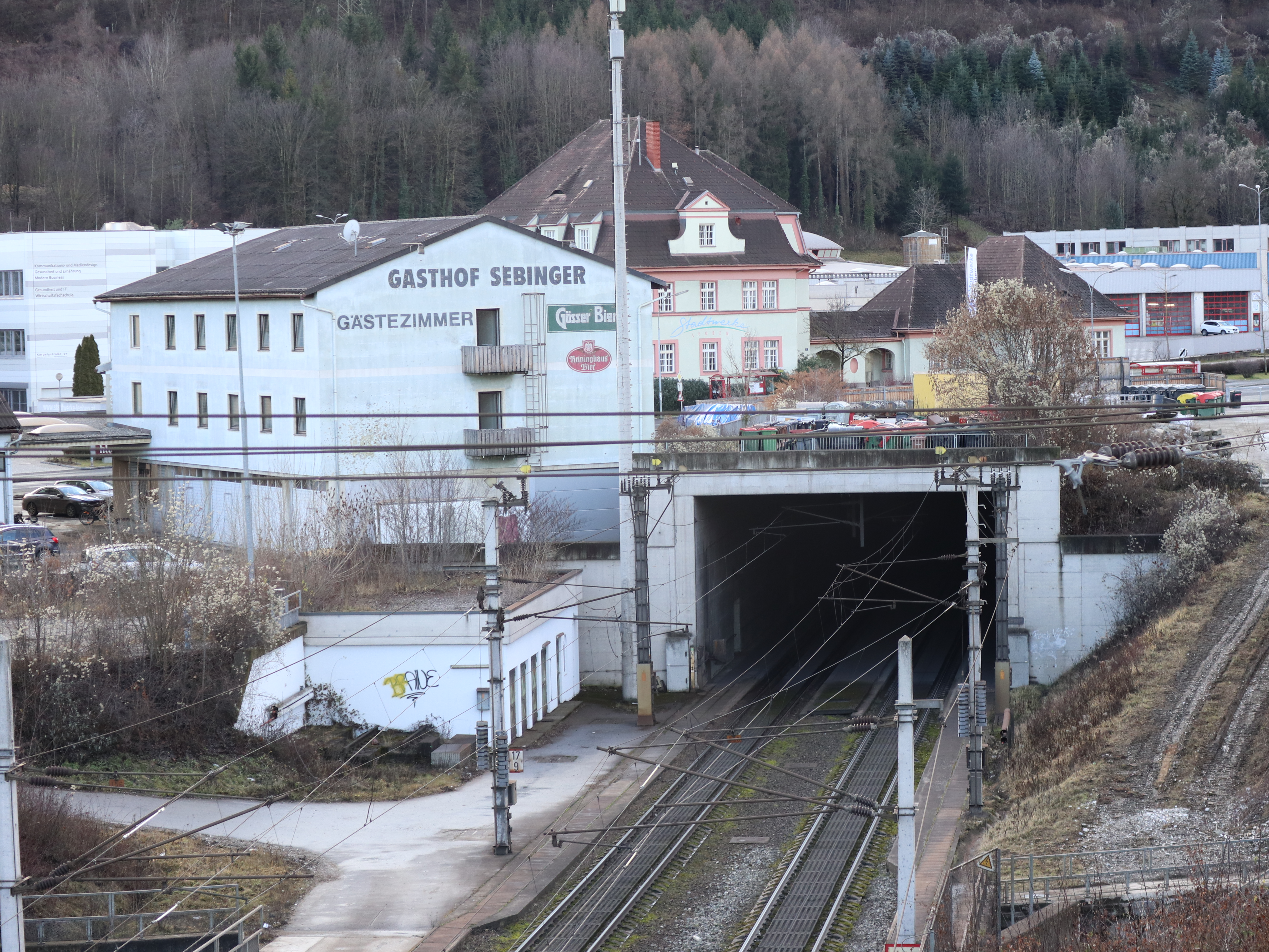 Eastern portal of Galgenbergtunnel in Leoben, Austria